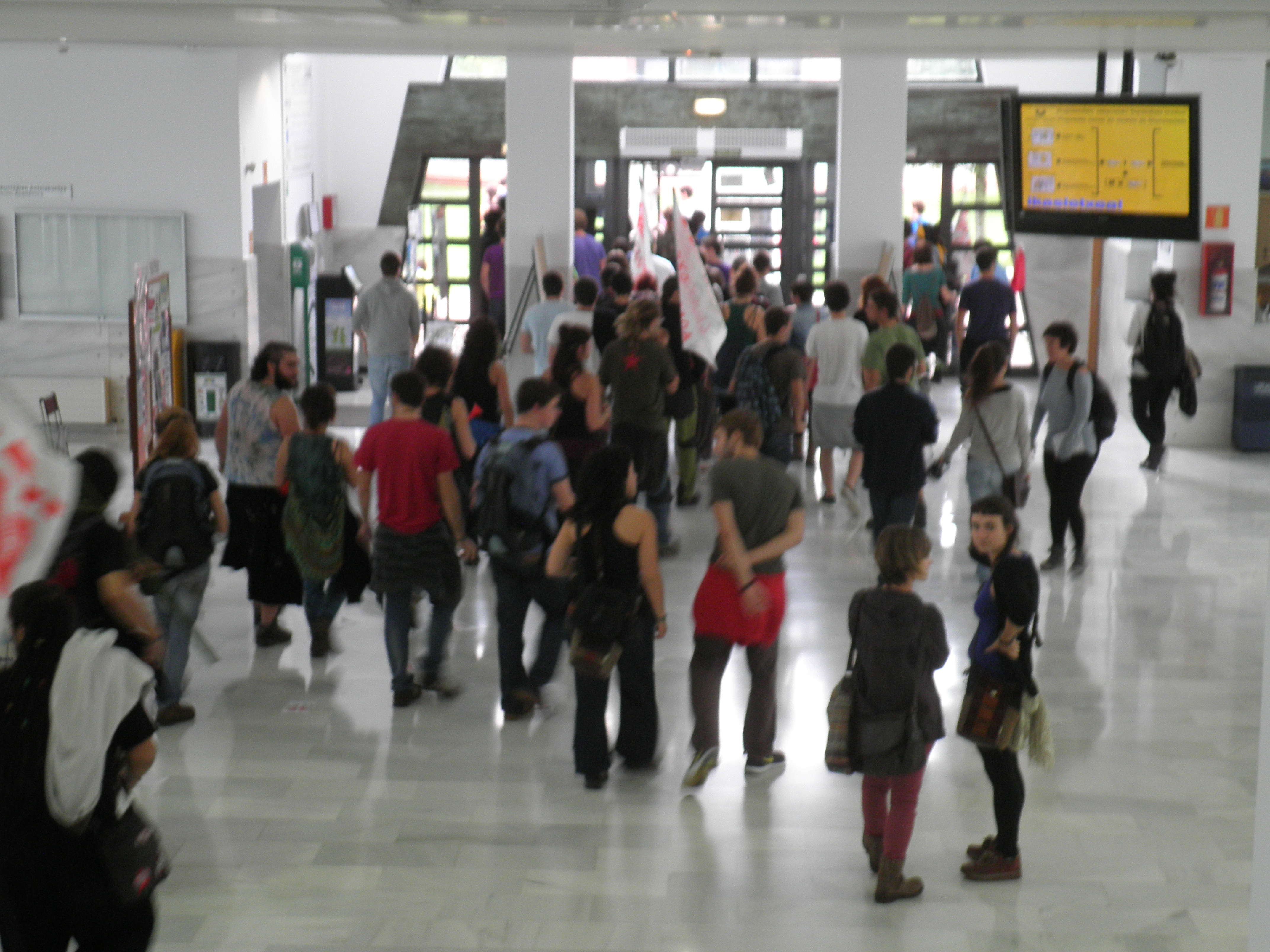 Picketing in the 2012 October 11 student strike in Euskal Herriko Unibertsitatea in Donostia (Enpresaritza Eskola).